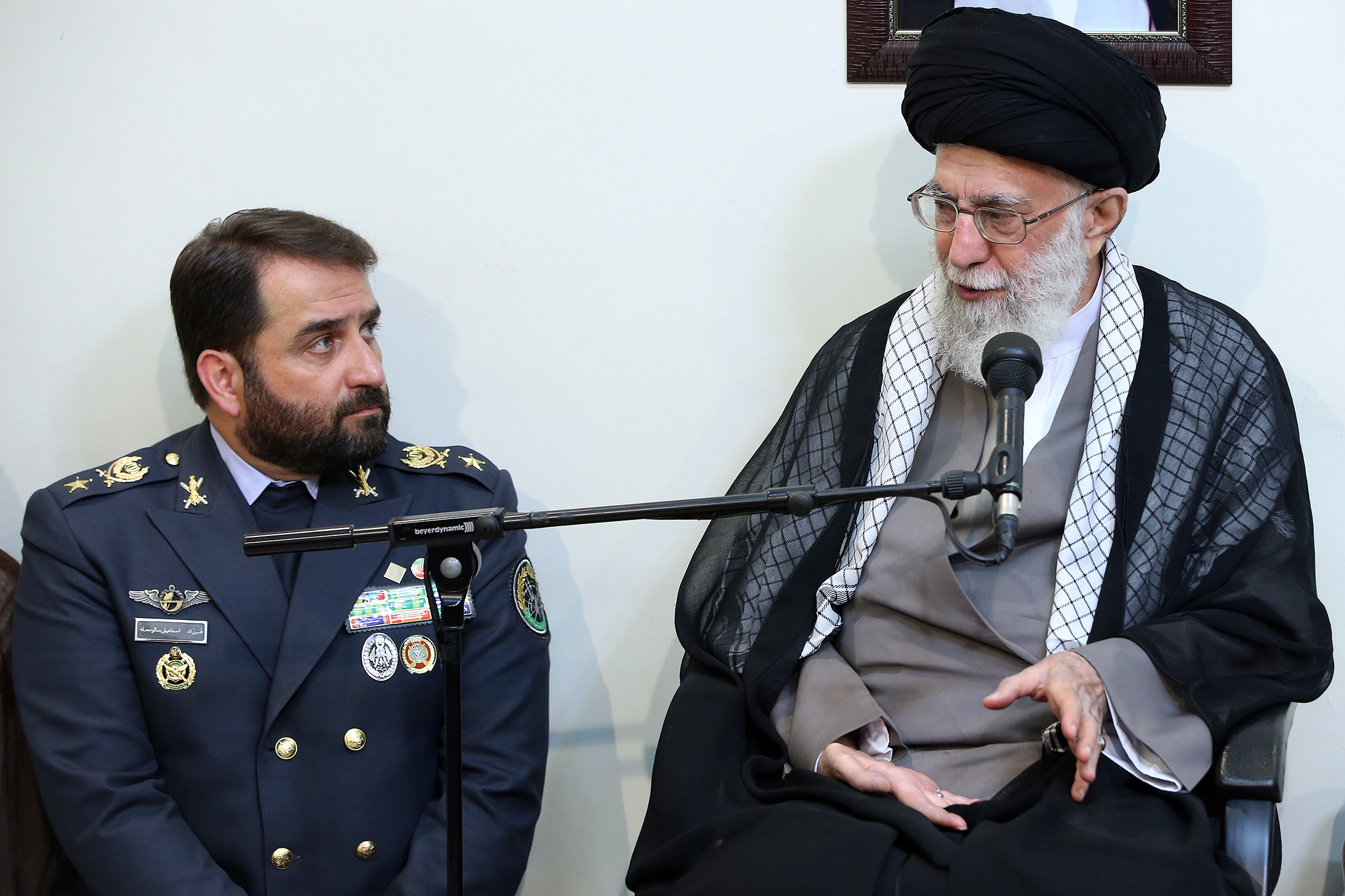 امیر سرتیپ فرزاد اسماعیلی فرماندهٔ قرارگاه پدافند هوایی خاتم‌الانبیاء ارتش جمهوری اسلامی ایران در دیدار فرماندهان قرارگاه پدافند هوایی خاتم‌الانبیاء(ص) ارتش با آیت الله سید علی خامنه ای رهبر جمهوری اسلامی ایران